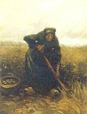 Van Gogh: Woman Lifting Potatoes, 1885